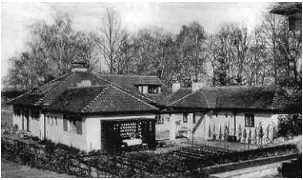 Second cottage of German architect Bruno Ahrends (1878–1948) in Zehlendorf near Berlin. It was built between 1921 and 1925 and had a direct access to Großer Wannsee. The estate was in the property of his father, the banker Barthold Arons (1850–1933) who lived in Villa Arons in the neighbourship. He was an enthusiastic yachtsman.